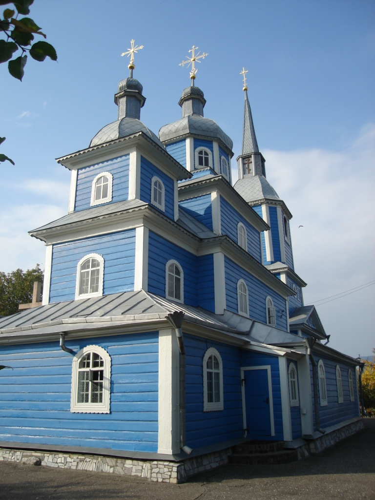 Church of Saint Michail (Slutsk, Belarus) This is a photo of Belarusian heritage monument. Reference number: 612Г000541 ( WLM)